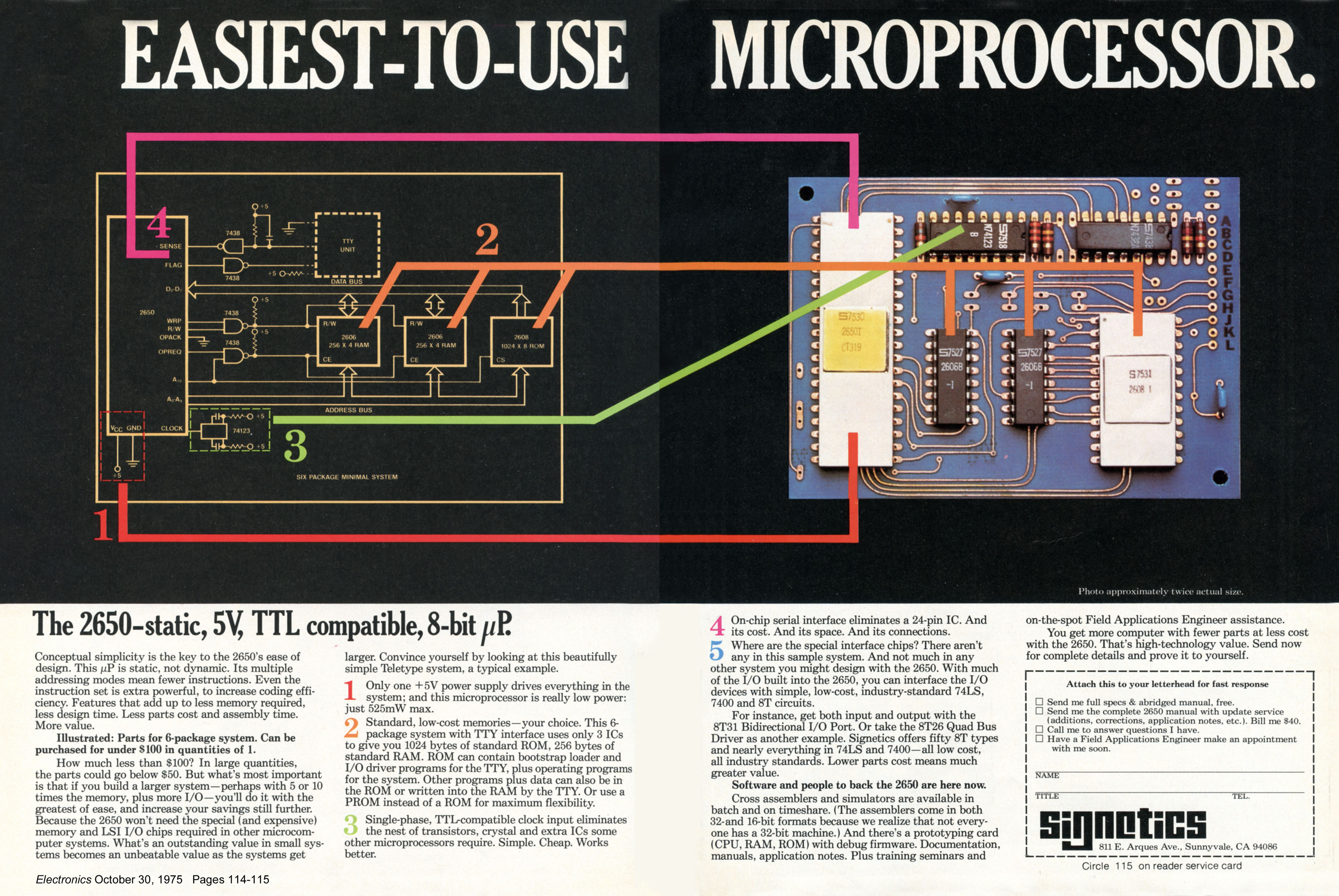 Signetics 2650 8-bit microprocessor advertisement in October 30, 1975 issue of Electronics magazine. Pages 114–115.